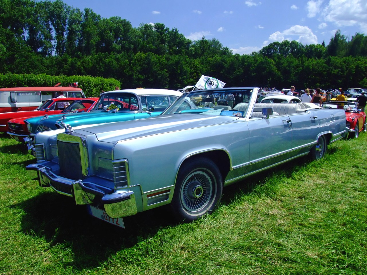 Lincoln Continental Town Car Convertible Conversion by SILCCO Baujahr: 1978 280 PS Quelle: selbst fotografiert, 06/2007 Fotograf: Späth Chr.